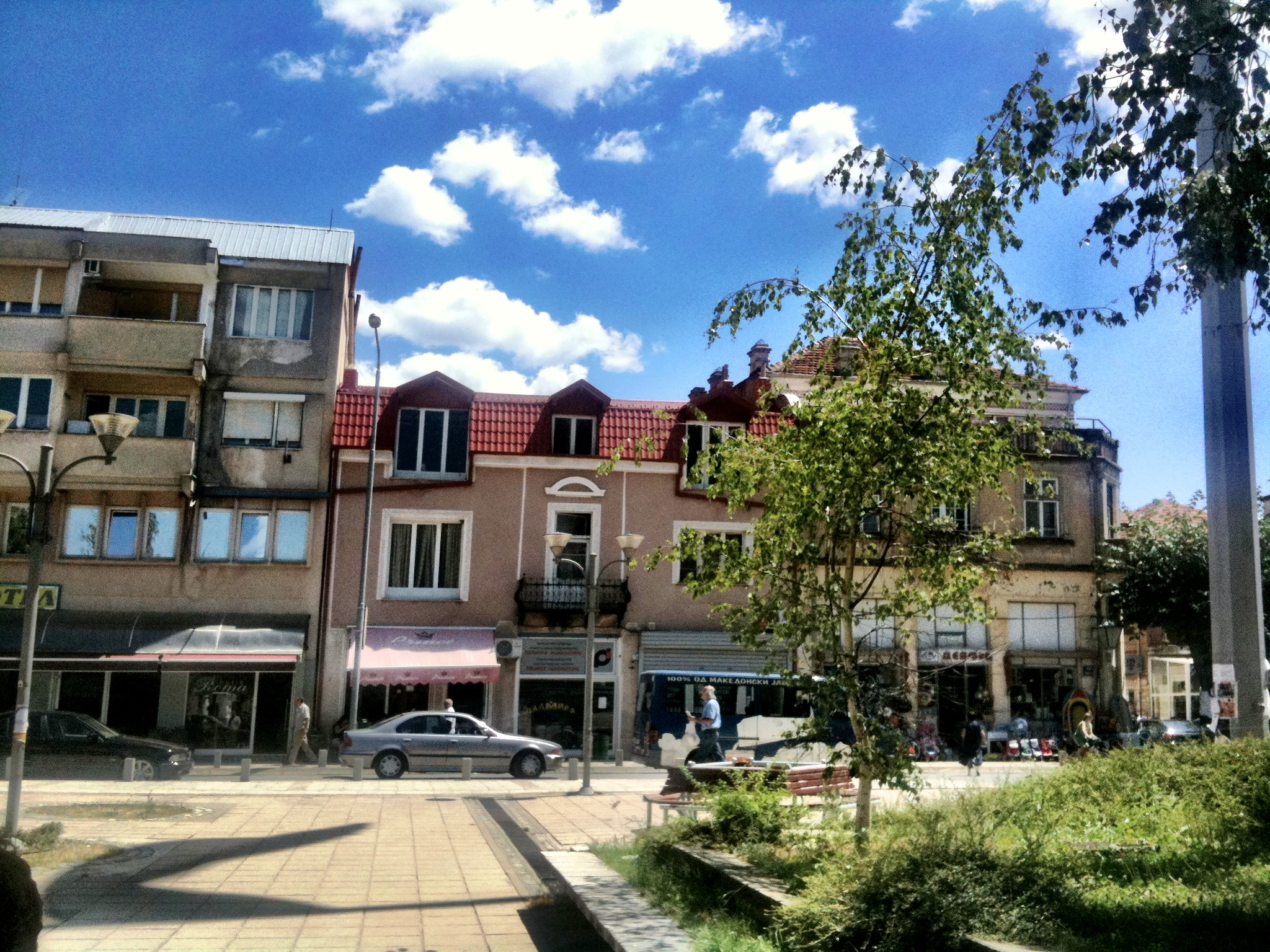 Buildings on Tito Street adjacent to the main square in Resen